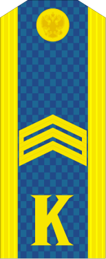 Russian rank insignia (1994-2010), here Kursant (wit the ranc "Sergeant" OR-6) – shoulder strap (Air Force, Airborne troops) field uniform.